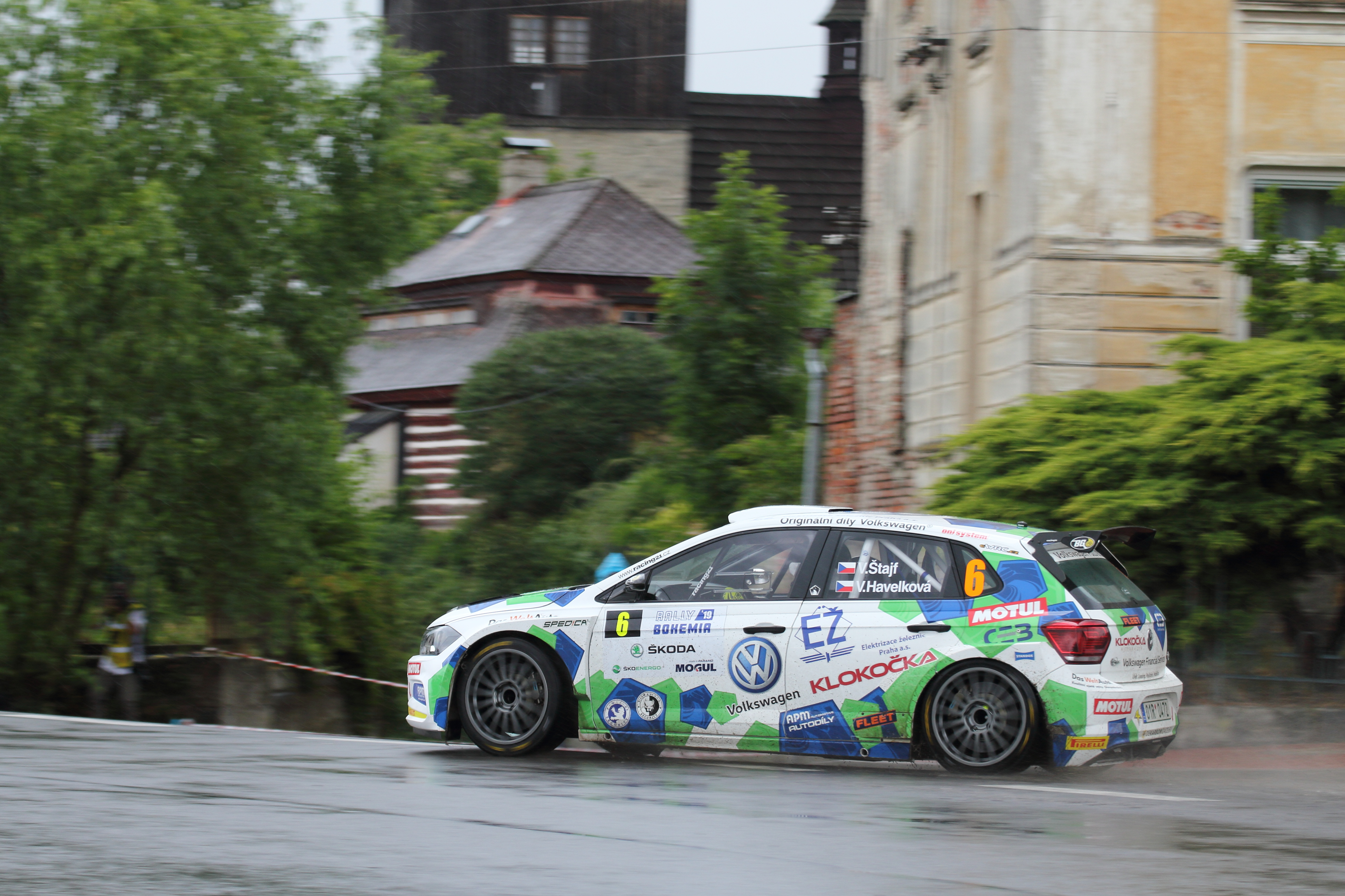 Štajf / Havelková, Volkswagen Polo GTI R5, 2019 Rally Bohemia